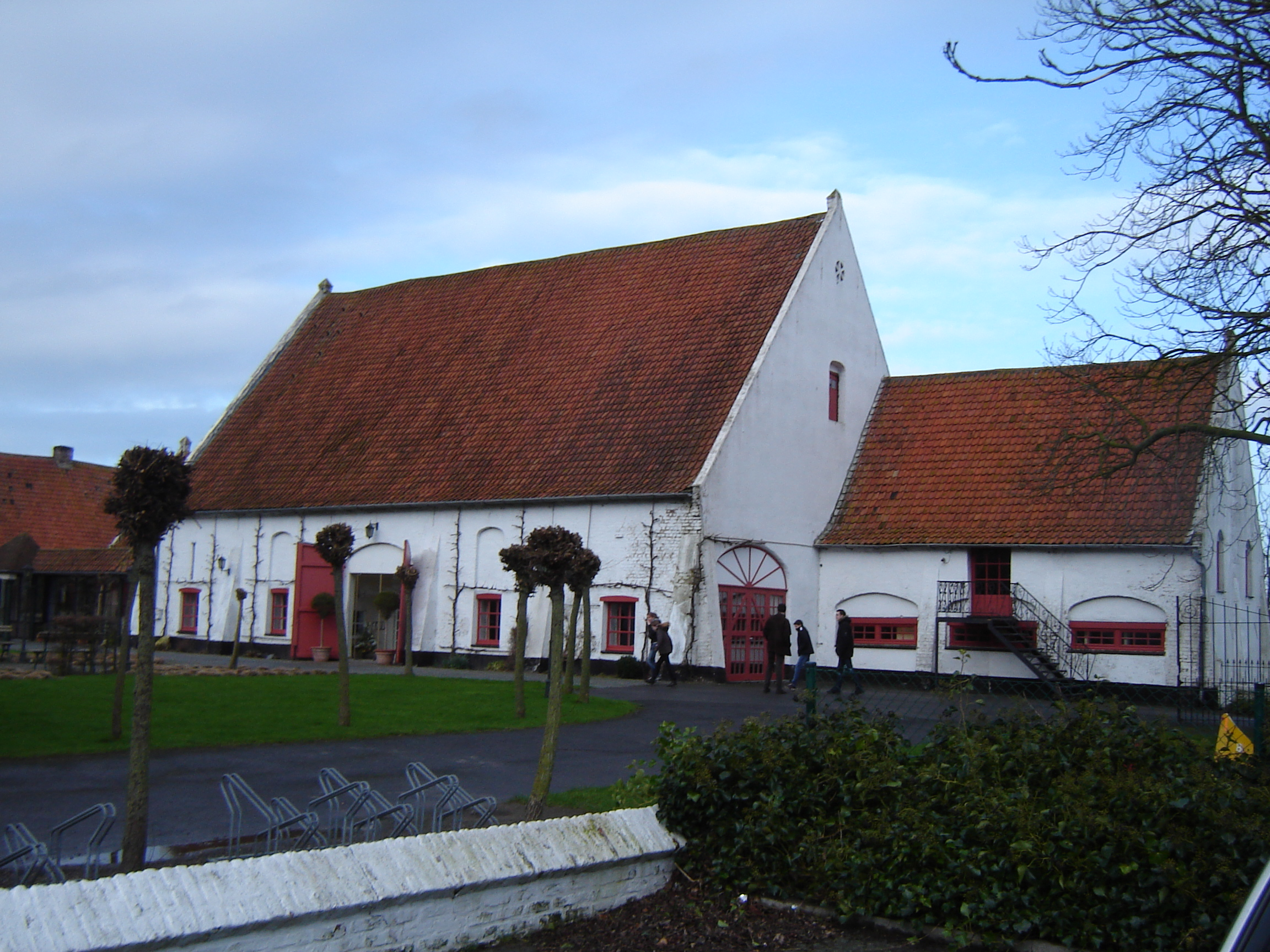 Schoorbakkehoeve. Old abbey farm, nowadays hotel/restaurants/tea room/seminar space. in Schore, Middelkerke, West Flanders, Belgium